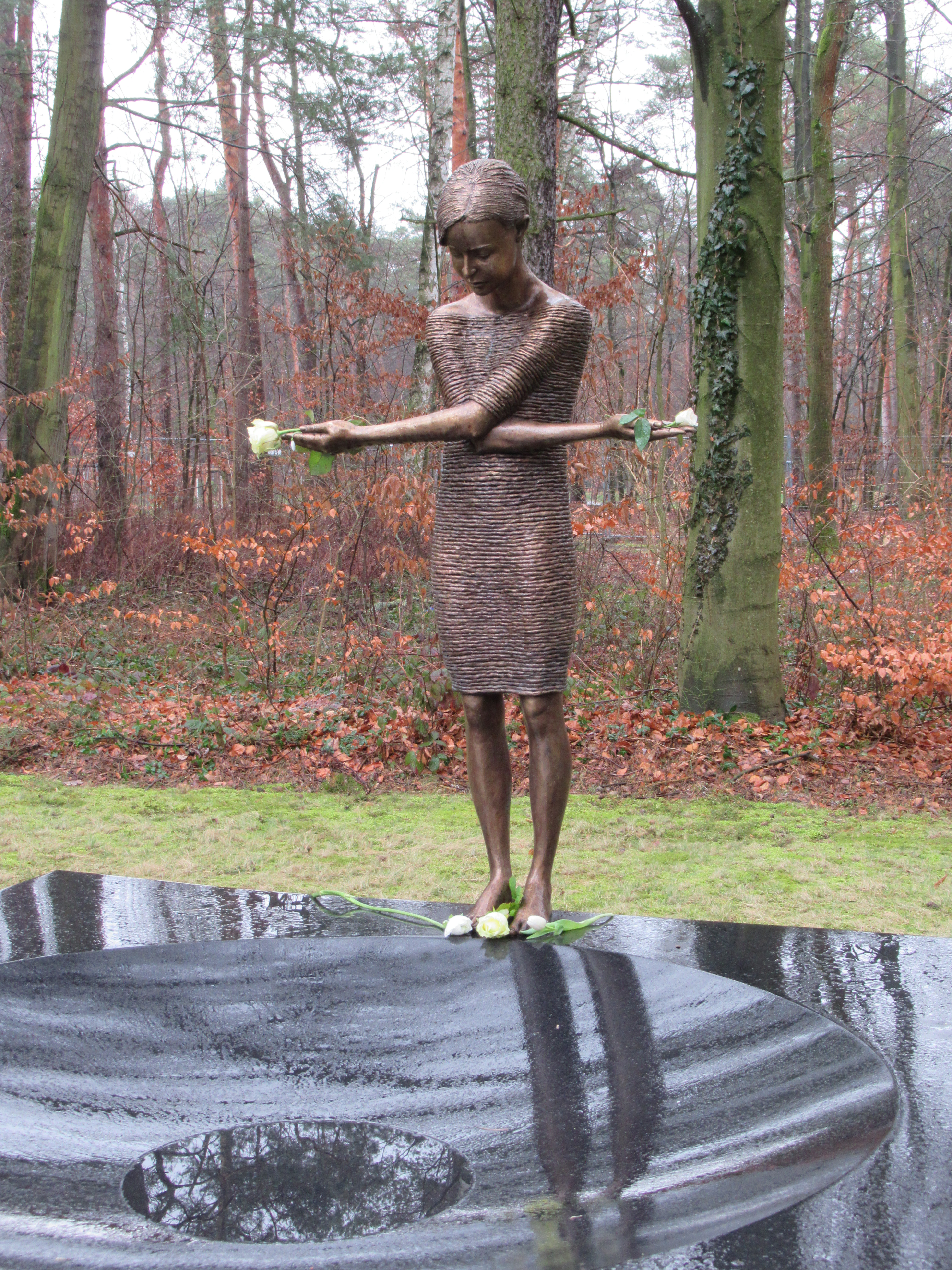 Heidefriedhof Dresden Trauerndes Mädchen am Tränenmeer for Bombing Victims in 1945